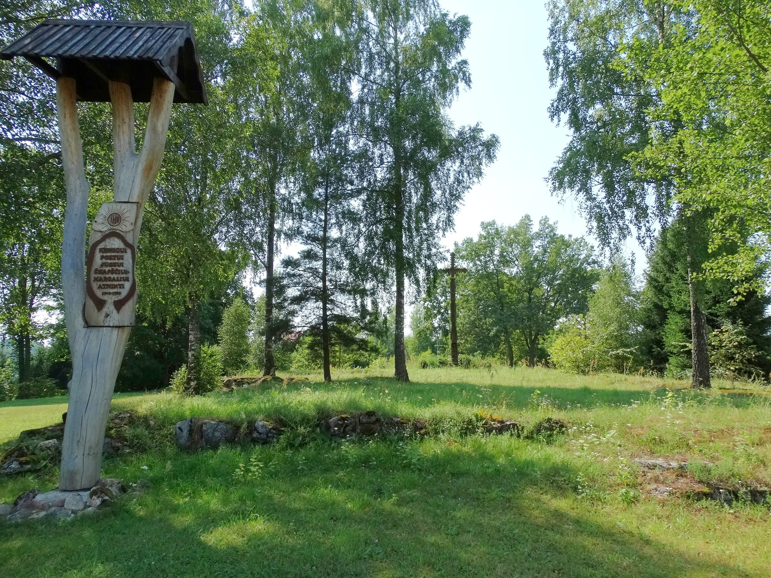 Inscription in memory of Juozas Šnapštys-Margalis, Tauragnai, Utena District, Lithuania